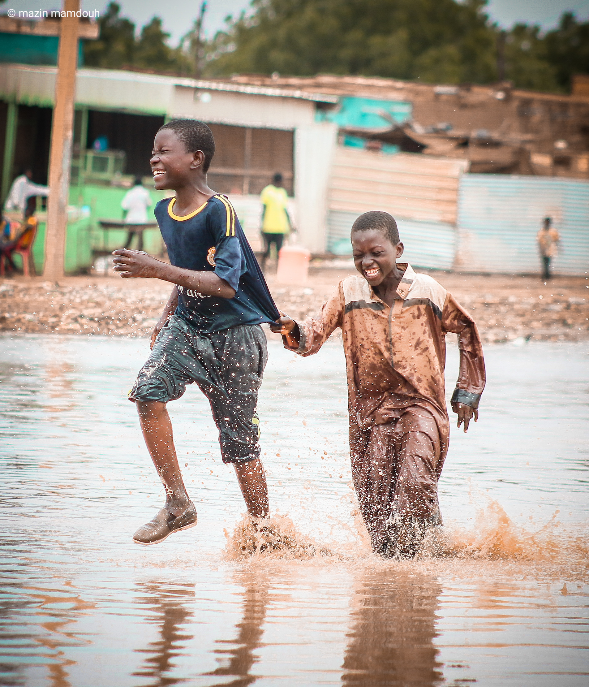 Street life This is an image with the theme "Play" from: Sudan